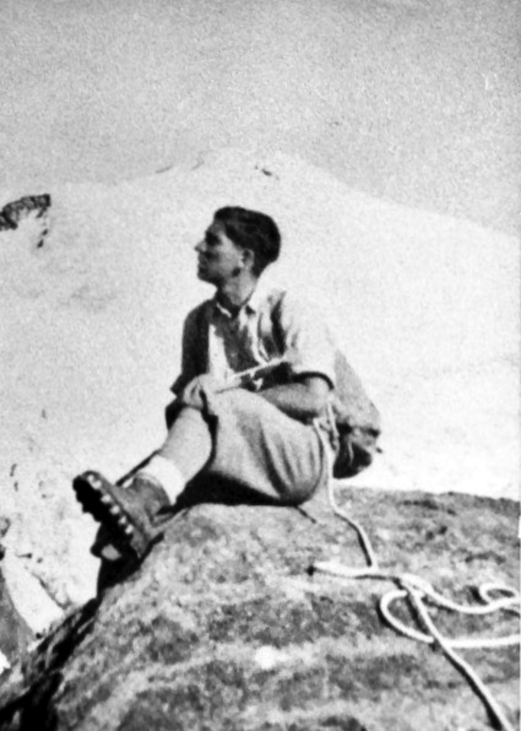 Ulrich 'Uli' Sild (1911–1937), Austrian mountaineer and alpinist, respectively.